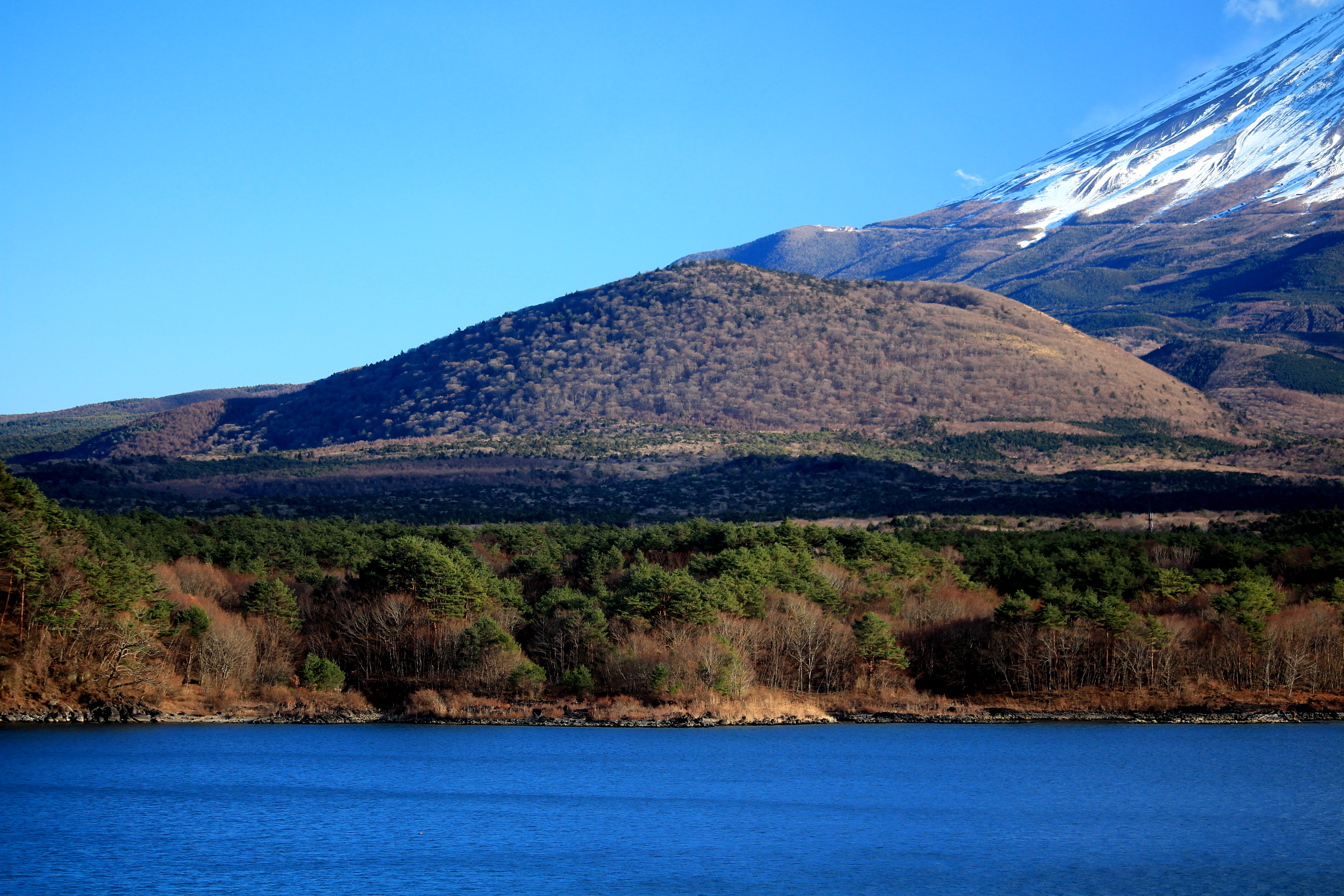 Mount Omuro seen from Lake Motosu in Fujikawaguchiko, Yamanashi prefecture, Japan.